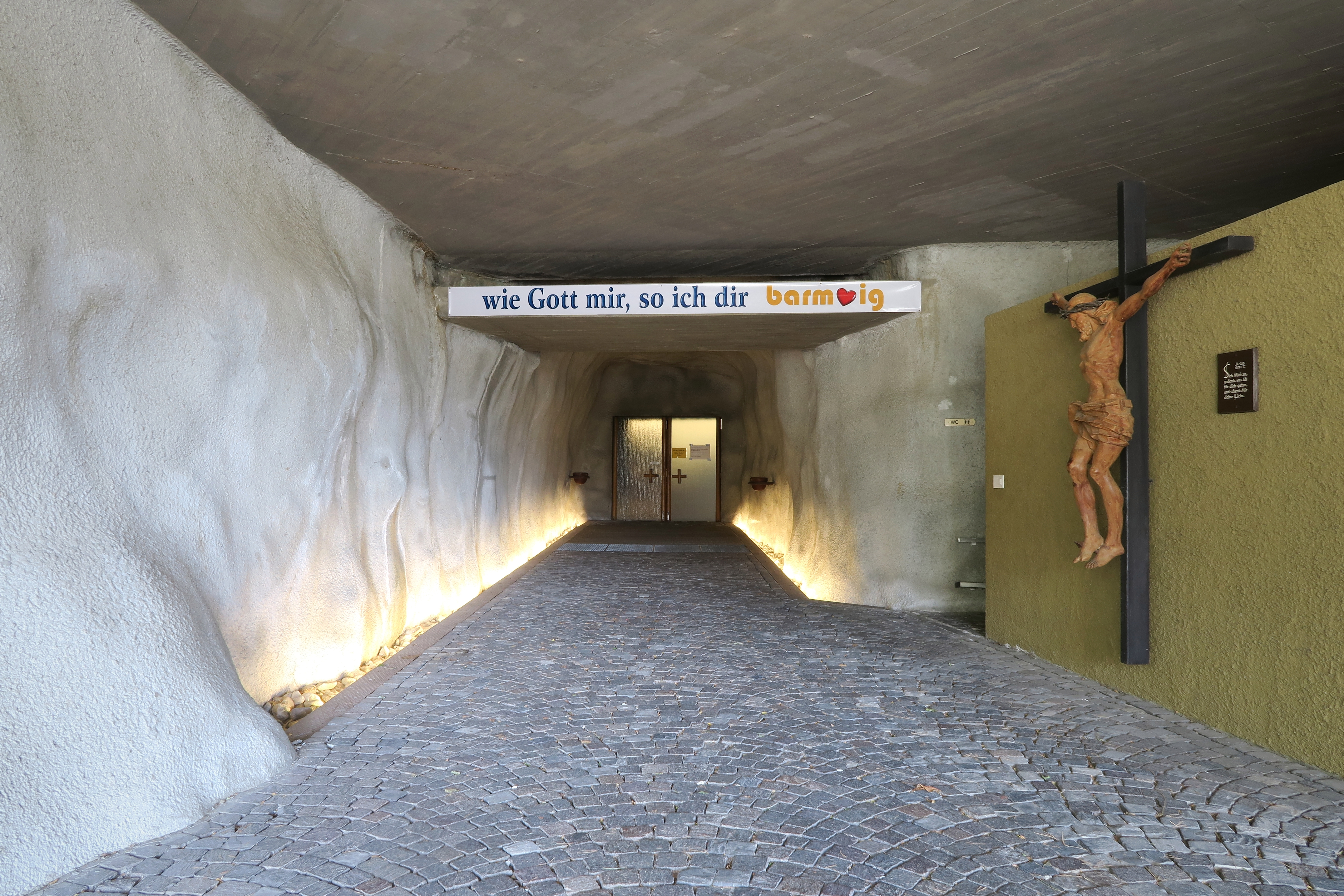 The entrance to the church. The cave was specifically broken out for this project. The construction time was 3.5 years. The inauguration was 1974. Switzerland, Aug 8, 2016. (2/7)